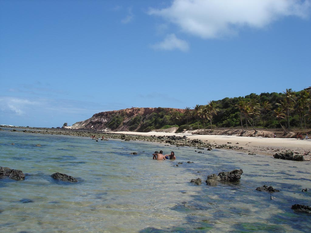 Love beach in Rio Grande do Norte, Brazil.